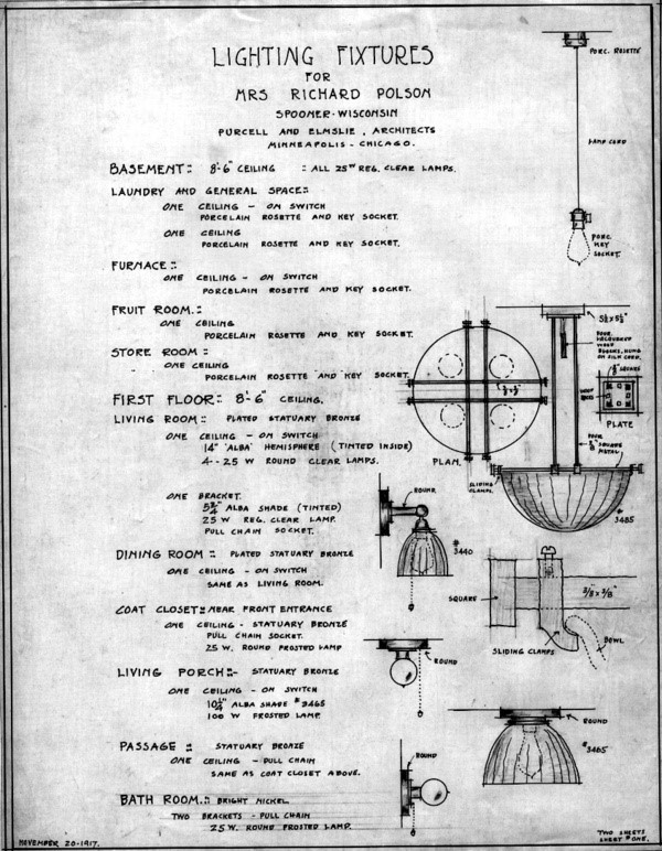 Lighting fixtures drawings and specifications for the Mrs. Richard Polson House in Spooner, Wisconsin, United States, by Prairie School architects Purcell & Elmslie, November 20, 1917